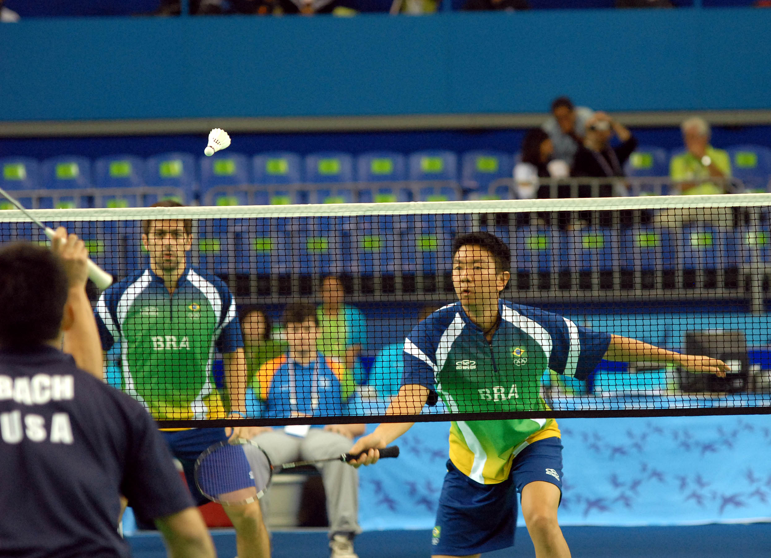 Badminton - Men's doubles competition - BRA vs. USA - Rio 2007